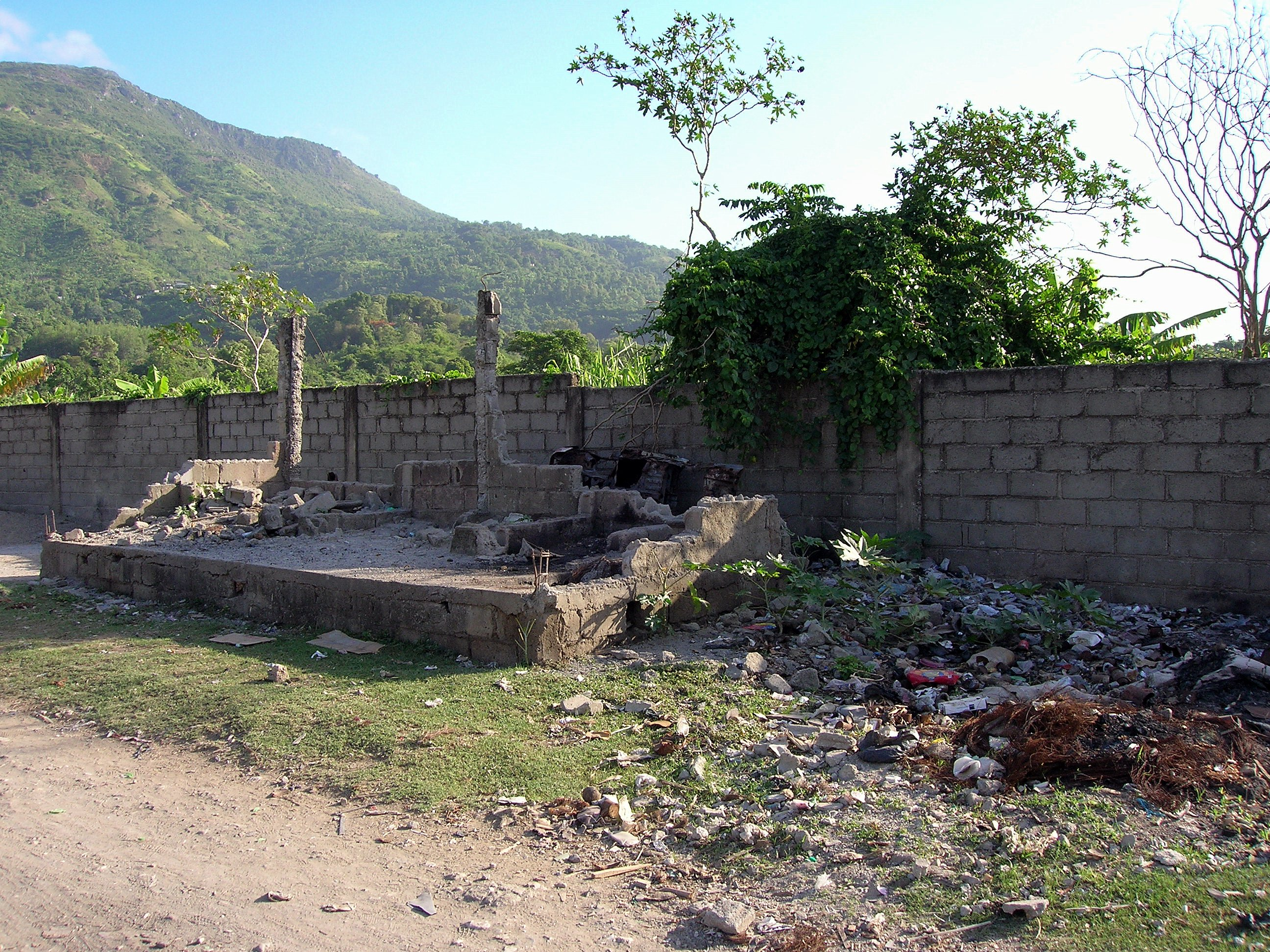 The remains of a public latrine in Dlo Gervier, Cap-Haitien, Haiti. After 3 months of lack of maintenance, it was dismissed and used as a dumping site.